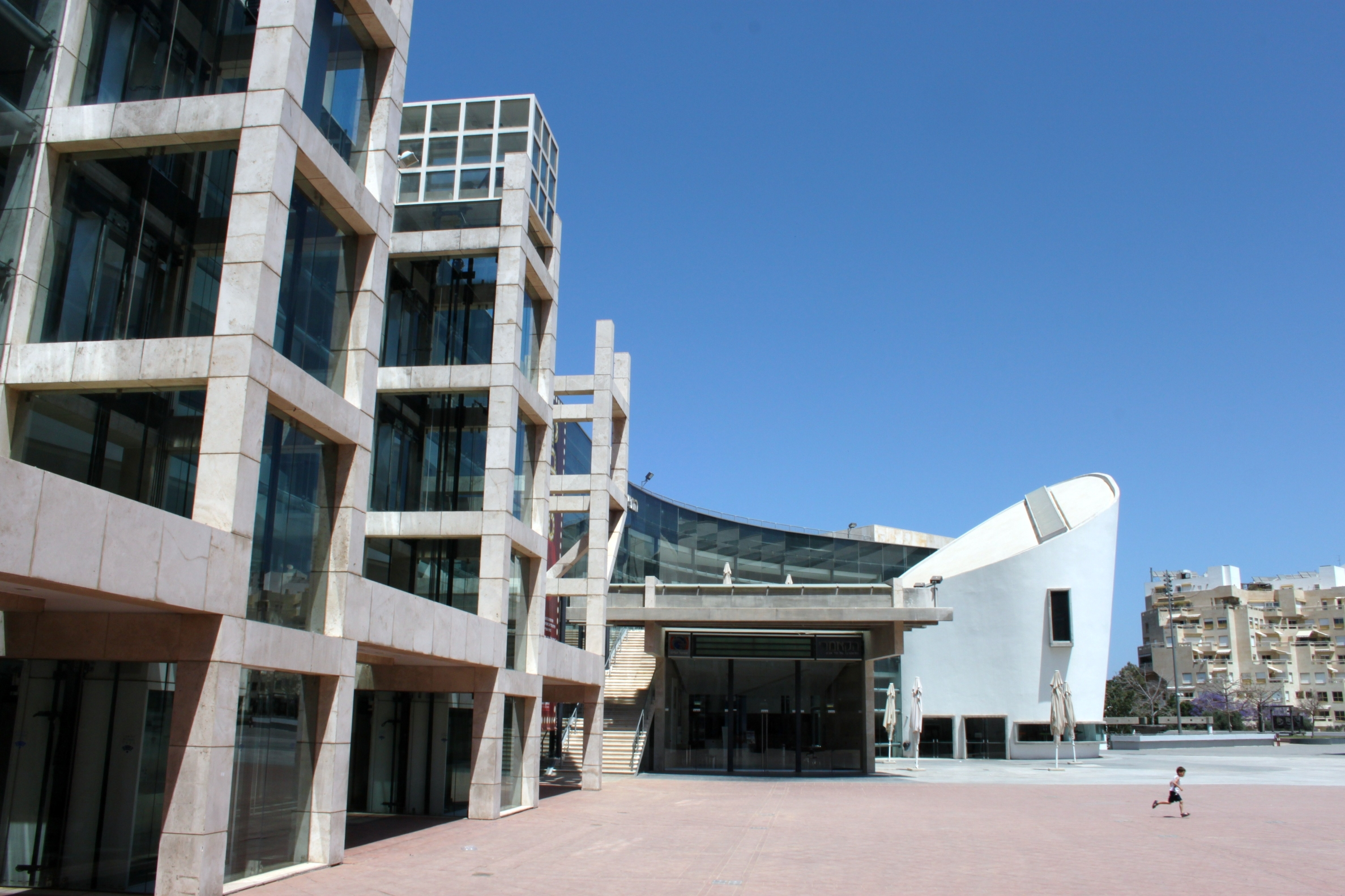 The Tel Aviv Center of Performing arts